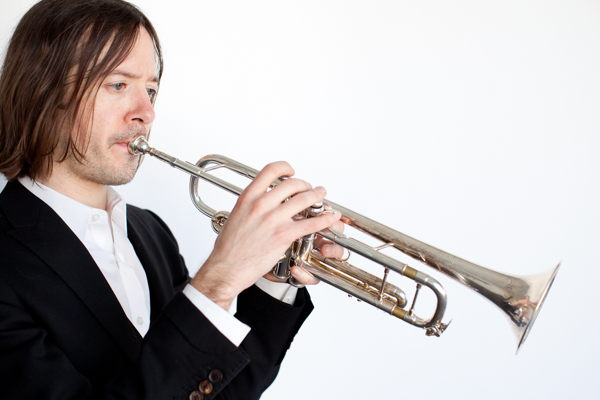 CJ Camerieri playing the trumpet